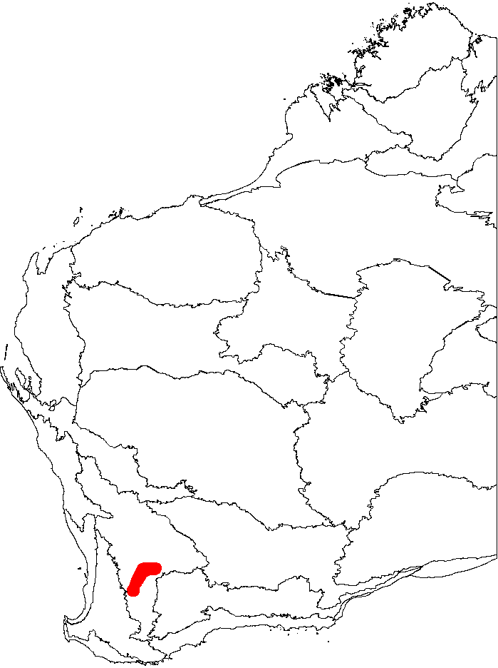 This is a map of Western Australia, showing the distribution of Banksia cuneata (Matchstick Banksia) superimposed on a background of the IBRA 6.1 biogeographic regions.